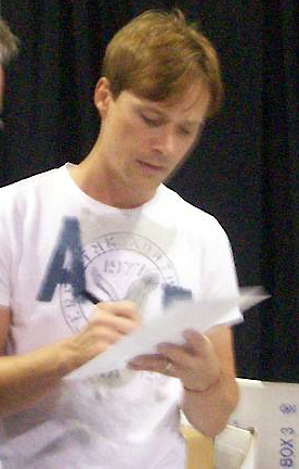 Country music singer Bryan White at CMA Music Fest, June 2010.